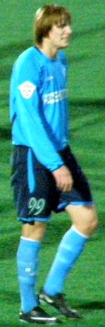 Oleg Ivanov as a player of FC Krylya Sovetov Samara